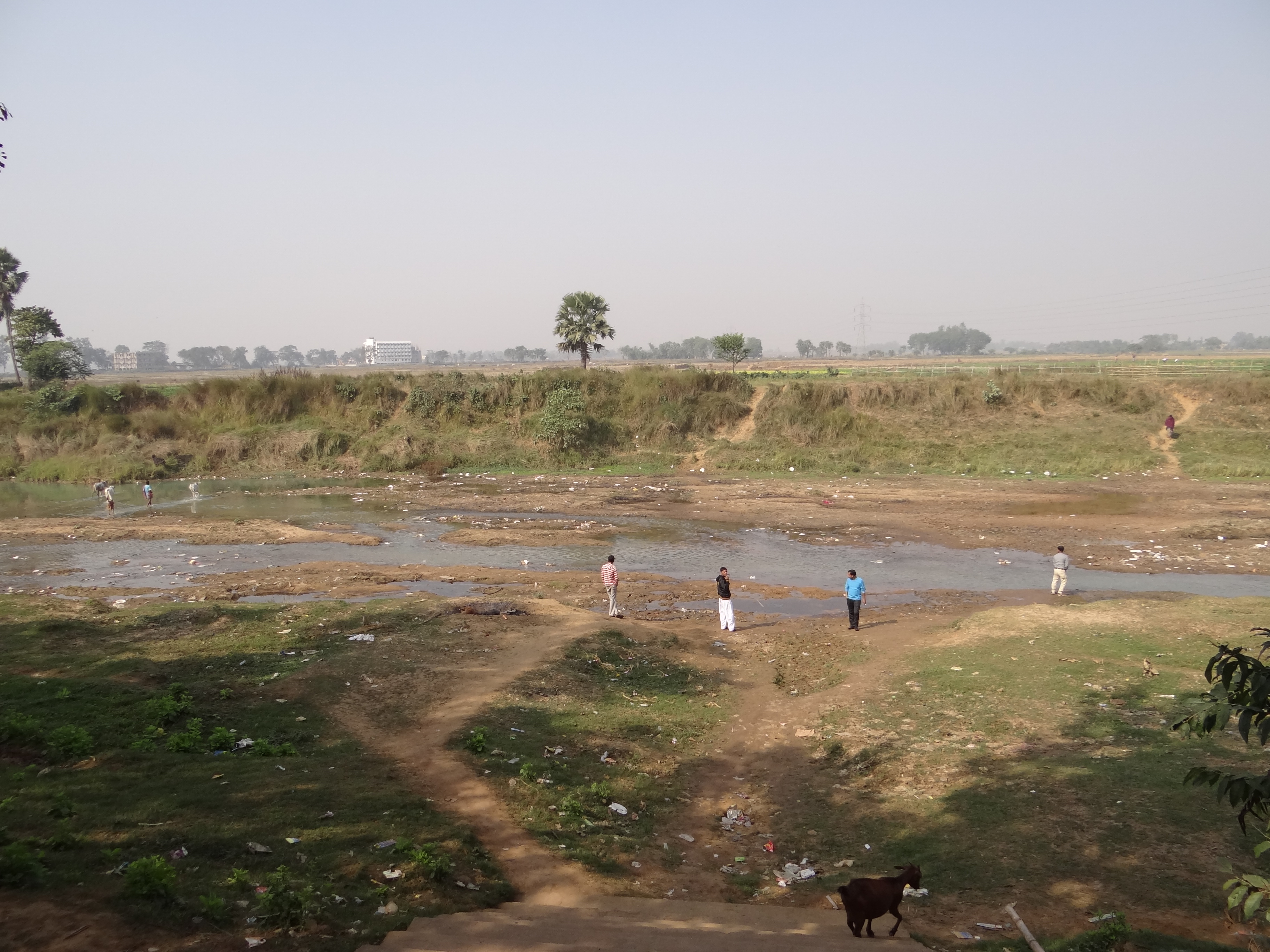 Creamation ground at Tarapith